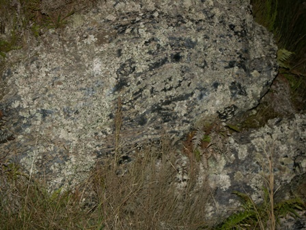 ObsidianBouldersAtBenLomond - photo taken and uploaded by Paul Moss, Photographer, Artist, Paul Moss Photographer Artist NZ